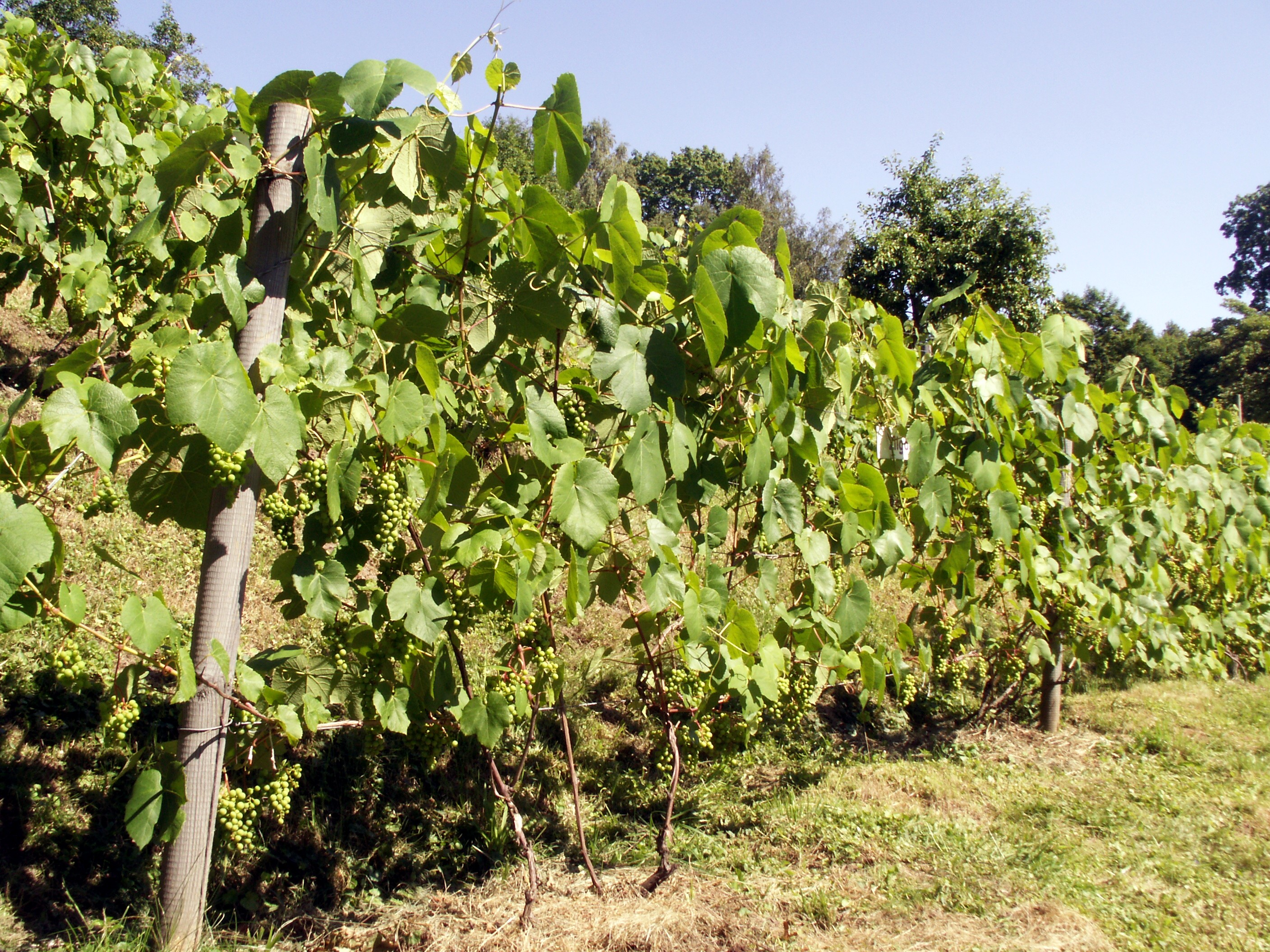 Sabile, Latvija